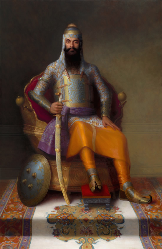 This is a digital photo of an 80" x 52" oil on canvas painting of Maharajah Ranjit Singh, as envisioned by contemporary artist Manu Kaur Saluja. The painting was completed in 2009 and has been exhibited at the Royal Ontario Museum in Toronto, from Nov 28, 2009 through March 28, 2010. The painting depicts Ranjit Singh, who was blind by one eye, sitting on his golden throne within the walls of the Lahore Fort. He is in full dress armor, with the Koh-i-Noor diamond on his right arm in its original setting. Note no 19th century painting of Ranjit Singh wearing a helmet rather than a turban exists.